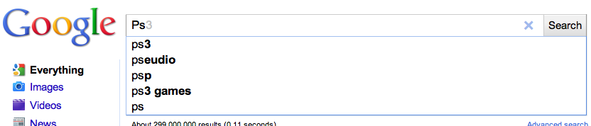 Beginning a search in Google Search Bar